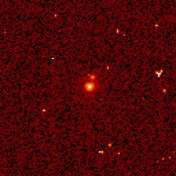 2001 Hubble Space Telescope image of (47171) 1999 TC36. This image shows 1999 TC36 as a binary object (components A+B). Further observations in 2008 confirmed the primary (A) to also be 2 closely bound components A1+A2.